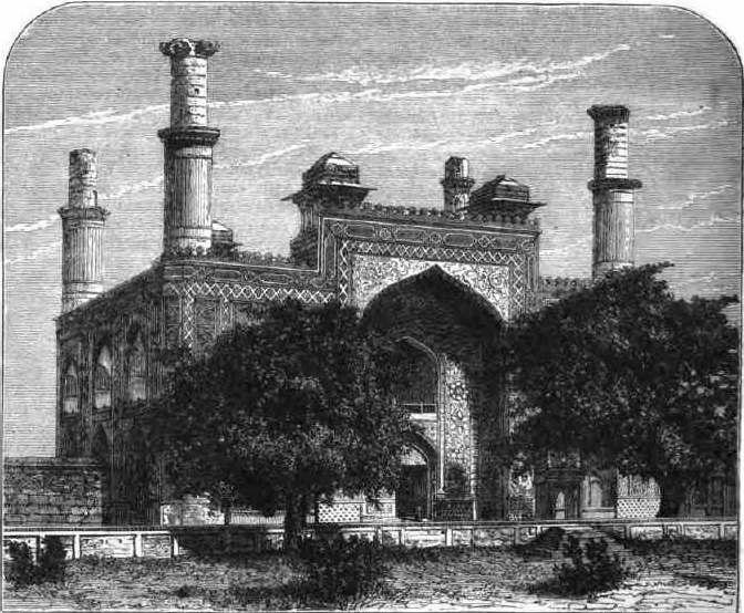 Entrance to the Tomb of Akbar